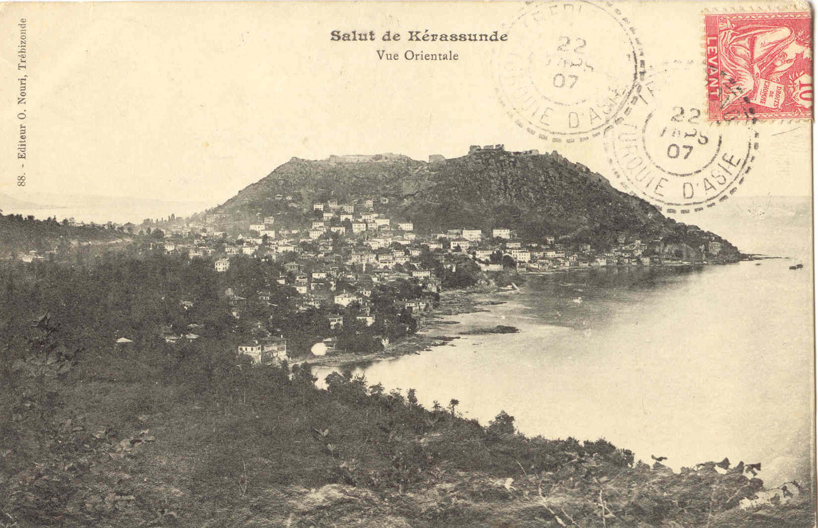 Giresun city at the beginng of 1900's